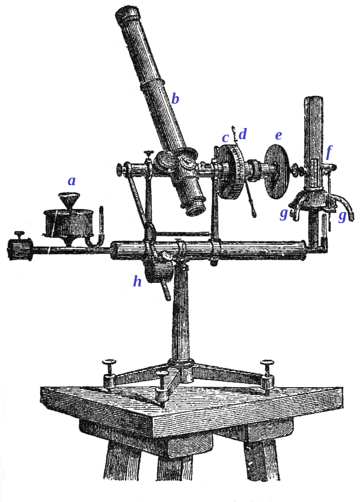 Zoellner photometer